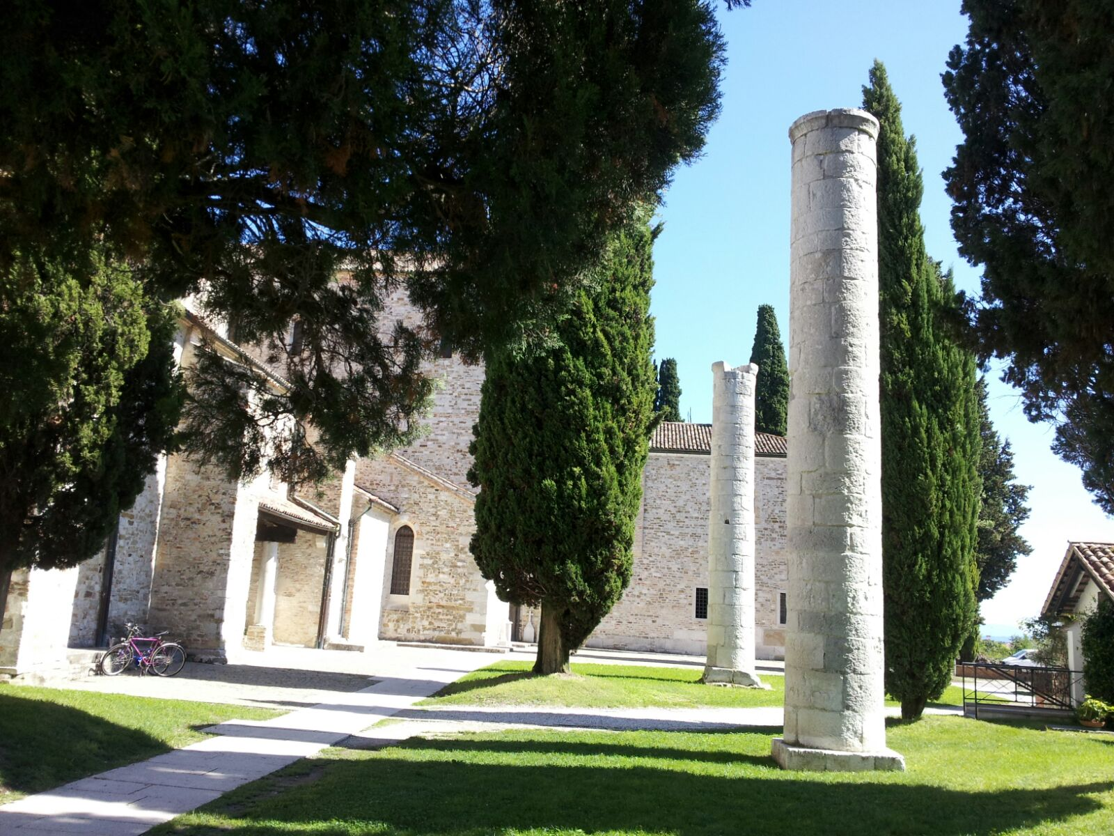 Remaining columns of the Patriarchal Palace in Aquileia, Italy